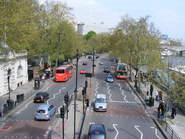 Victoria Embankment The A3211 running parallel to the River Thames-taken from Hungerford footbridge